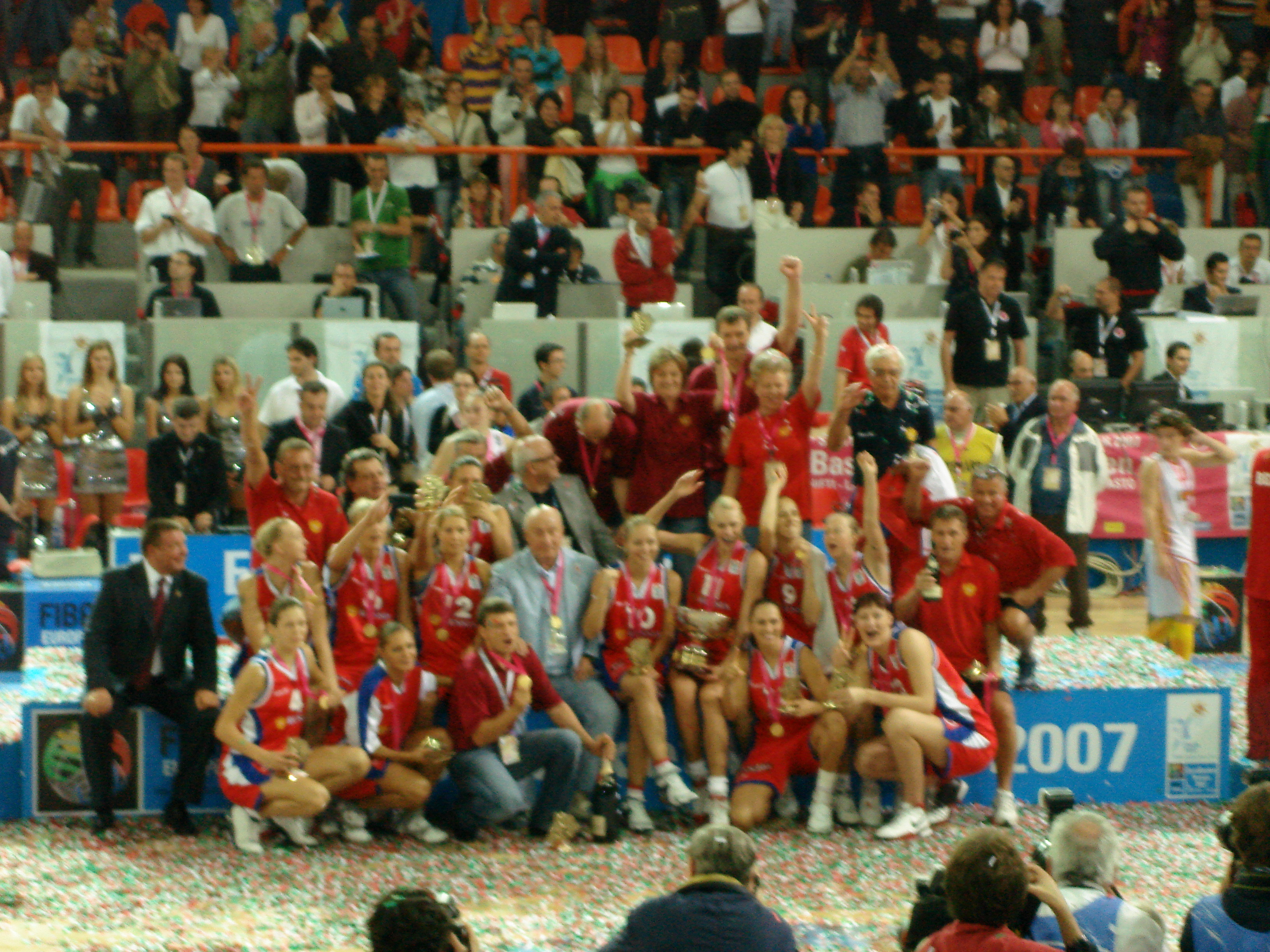 FIBA EuroBasket Women 2007 - Final - Russia celebration